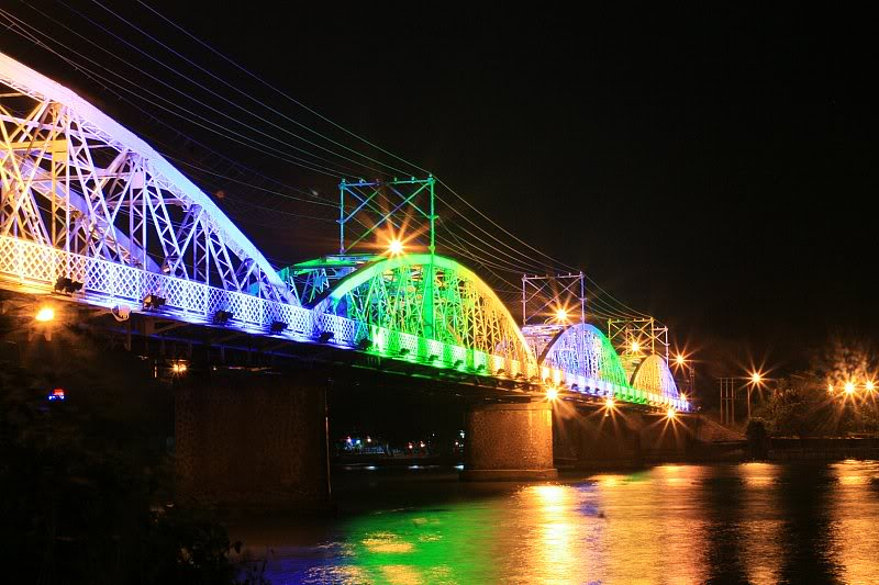 Ghenh Bridge of Bien Hoa at night in 2010